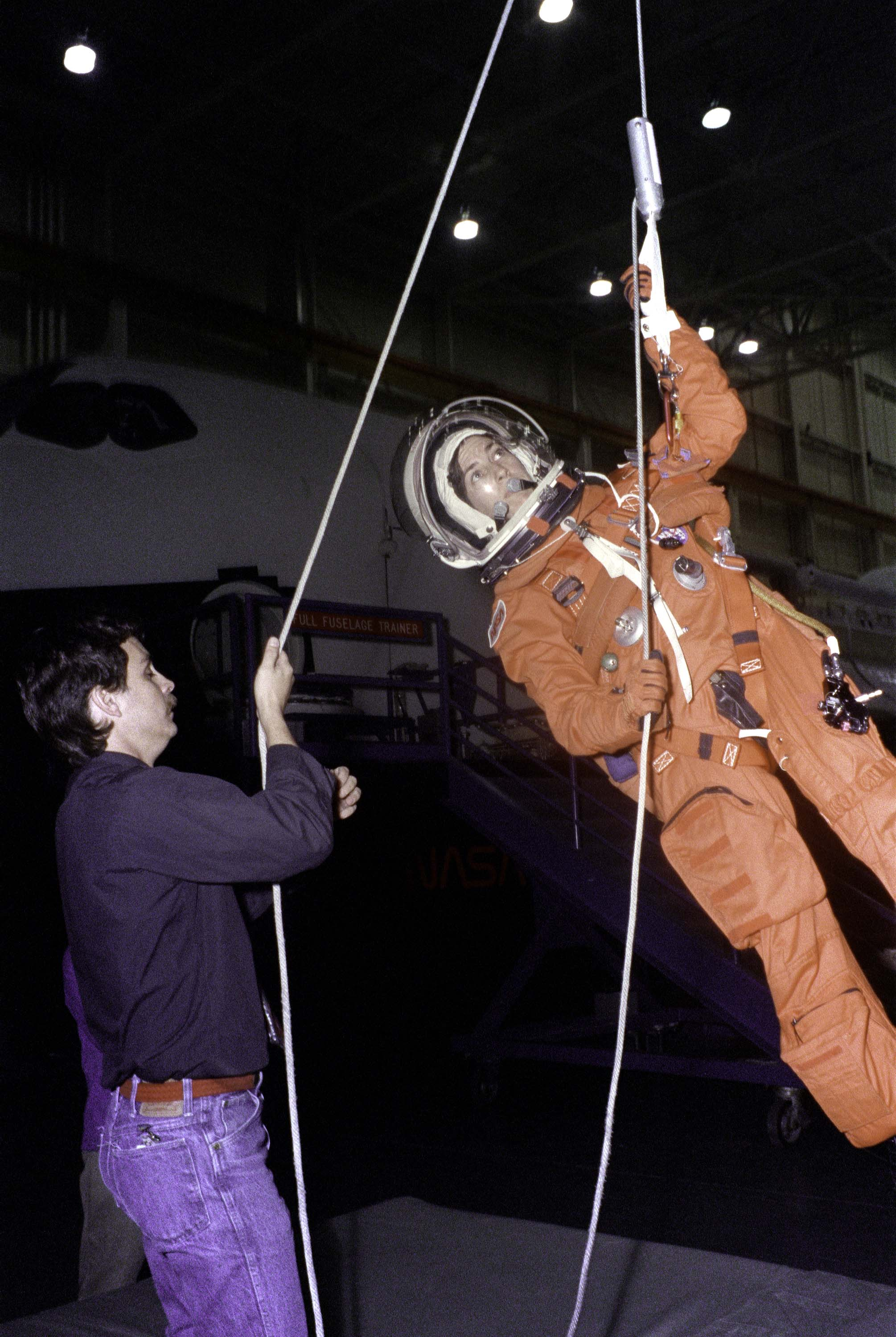 Mission Specialist Ellen Ochoa, wearing a Launch and Entry Suit (LES) and Launch and Entry Helmet (LEH), simulates an emergency egress procedure at JSC's Mockup and Integration Laboratory (MAIL). Having exited the crew compartment trainer (CCT) a shuttle mockup, through an overhead aft flight deck window; Ochoa lowers herself to the ground using the sky-genie. Training instructor Kenneth D. Trujillo assumes the role of a crewmate assisting from a position on the ground. The sky-genie is carried on all Space Shuttle flights for emergency egress purposes.